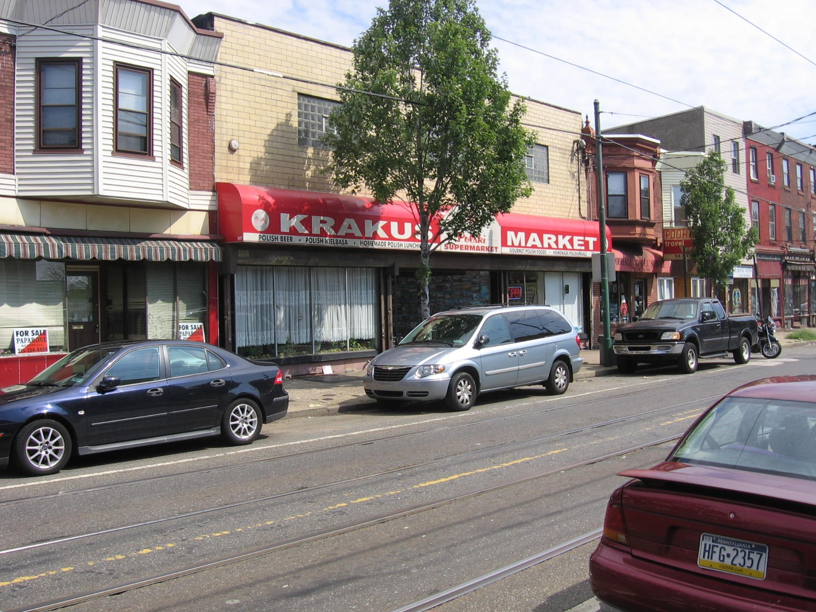 Port Richmond, Philadelphia - West side of Richmond Street, a block south of Allegheny Avenue, in the Port Richmond section of Philadelphia, showing various stores, including the Krakus Supermarket which supports the needs of the Polish community in the area.